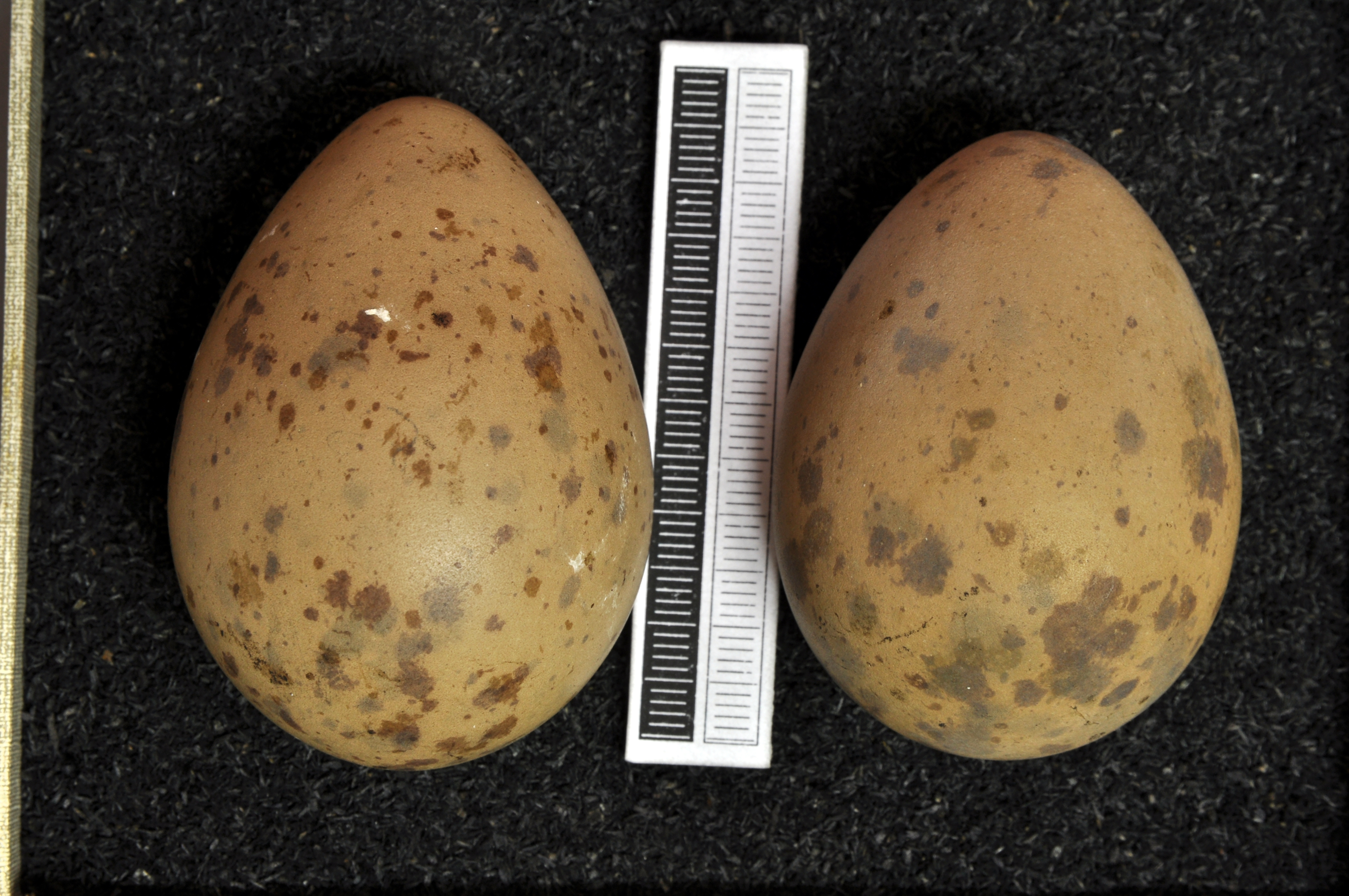 Parasitic jaeger Stercorarius parasiticus , egg, Coll. Museum Wiesbaden